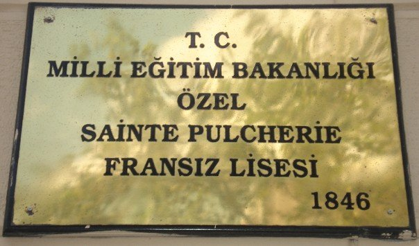 The plaque of Sainte-Pulchérie French High School at Istanbul